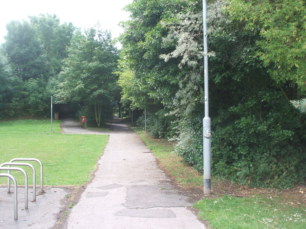 Sutton on Hull railway station (site), Sutton-on-Hull, East Riding of Yorkshire, England.Opened in 1864 by the Hull & Hornsea Railway, which soon to become part of the North Eastern Railway empire, this station closed to passengers in 1964 and completely in 1965. View south east towards Hull. The path is located between the former platforms but the trackbed appears to have been filled in to platform height. The path on the left leads up to the former Station Master's house. Barely visible in the trees is the Church Street road overbridge.